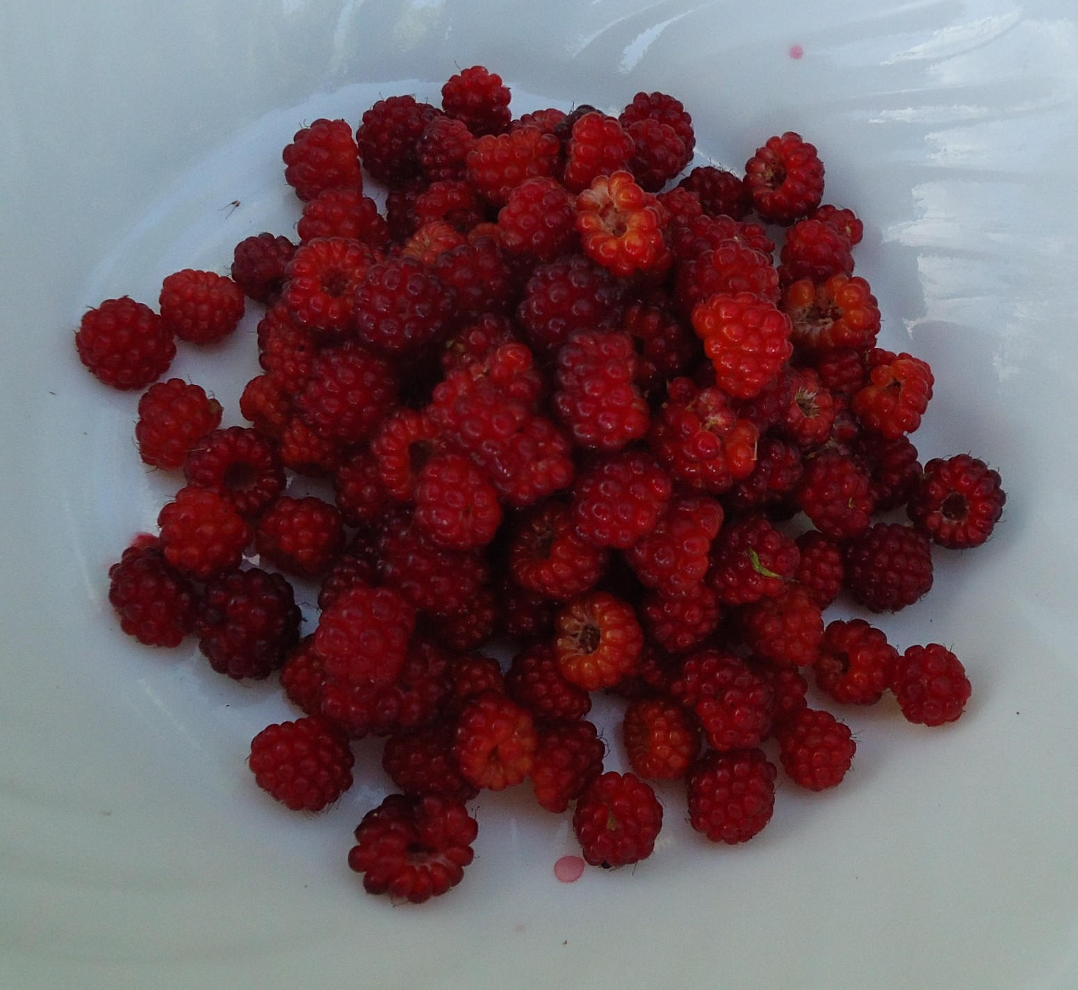 Red raspberries picked off bushes in Riverdale, New Jersey, and put in a bowl.